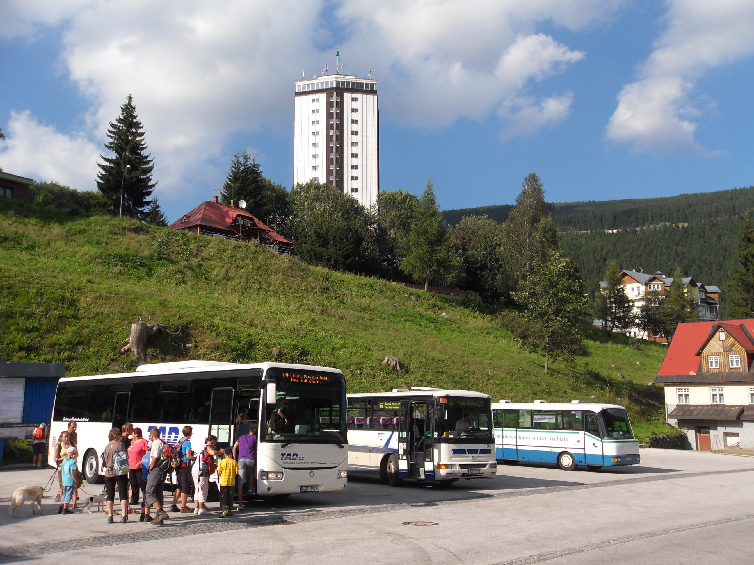 Irisbus Crossway bus of Trutnovská autobusová doprava, Karosa C 954 E bus of ČSAD Střední Čechy and SOR C 9,5 bus of Krkonošská automobilová doprava Vrchlabí, bus station, Pec pod Sněžkou, Czech Republic